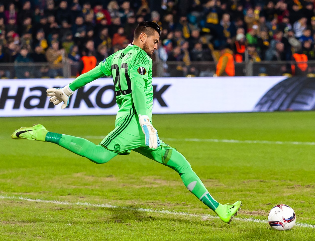 Sergio Romero